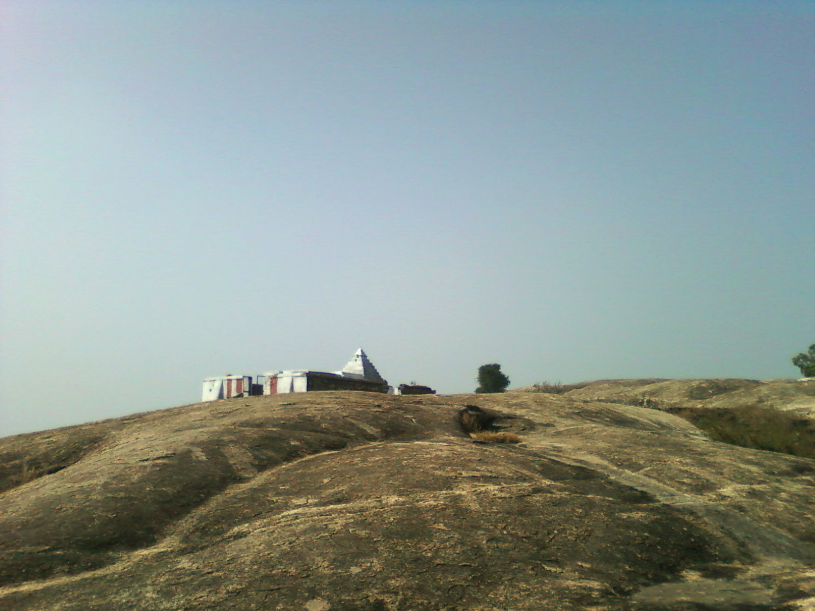 1000 year old Lord Sri Rama temple on Bodhikonda at Ramatheertham in Vizianagaram district